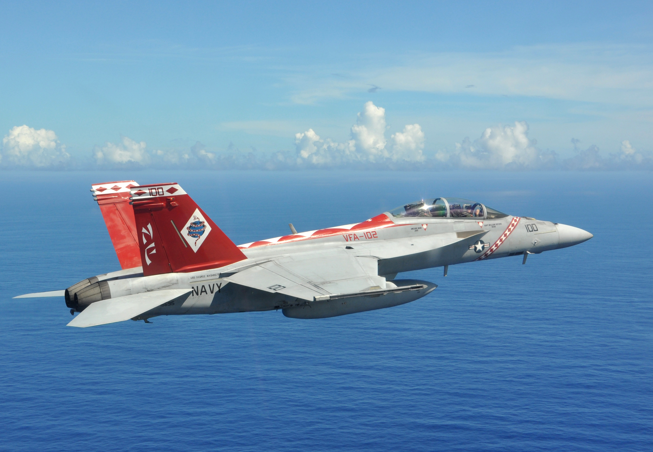 A U.S. Navy Boeing F/A-18F Super Hornet (BuNo 166915) from Strike Fighter Squadron VFA-102 "Diamondbacks" in flight over the Philippine Sea. VFA-102 was assigned to Carrier Air Wing 5 (CVW-5) aboard the the aircraft carrier USS George Washington (CVN-73).